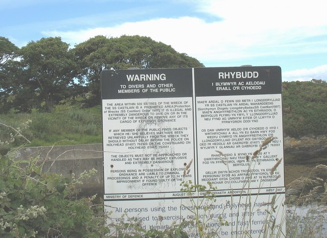 An MOD warning at Porth y Felin This is a warning aimed most specifically at divers and refers to the munitions ship SS Castilian which was wrecked off the Skerries in 1943. The crew of 47 were rescued by the Holyhead Lifeboat. Possession of munitions from the Castilian could land you in prison for up to 14 years.